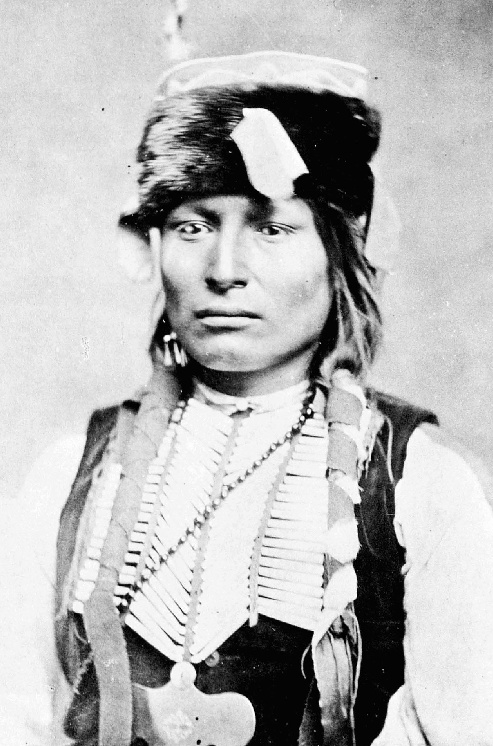 Mamay-day-te Lone Wolf the younger (c, 1843-1923) or Lone Wolf the Second, originally named Mamamy-day-te (Mamay-dat-ta) or Mamadayte. “[...]It is believed that Soule made this picture about 1870, when Mamay-day-te was a fairly young warrior. His later pictures, mostly made in Washington when he went there from time to time as chief tribal delegate, show that he had changed considerably in appearance.” —Smithsonian Institution, Bureau of American Ethnology, In: Wilbur Sturtevant Nye, Plains Indian raiders : the final phases of warfare from the Arkansas to the Red River, with original photographs by William S. Soule. University of Oklahoma Press, 1st edition, 1968, ISBN 0806111755, p332.